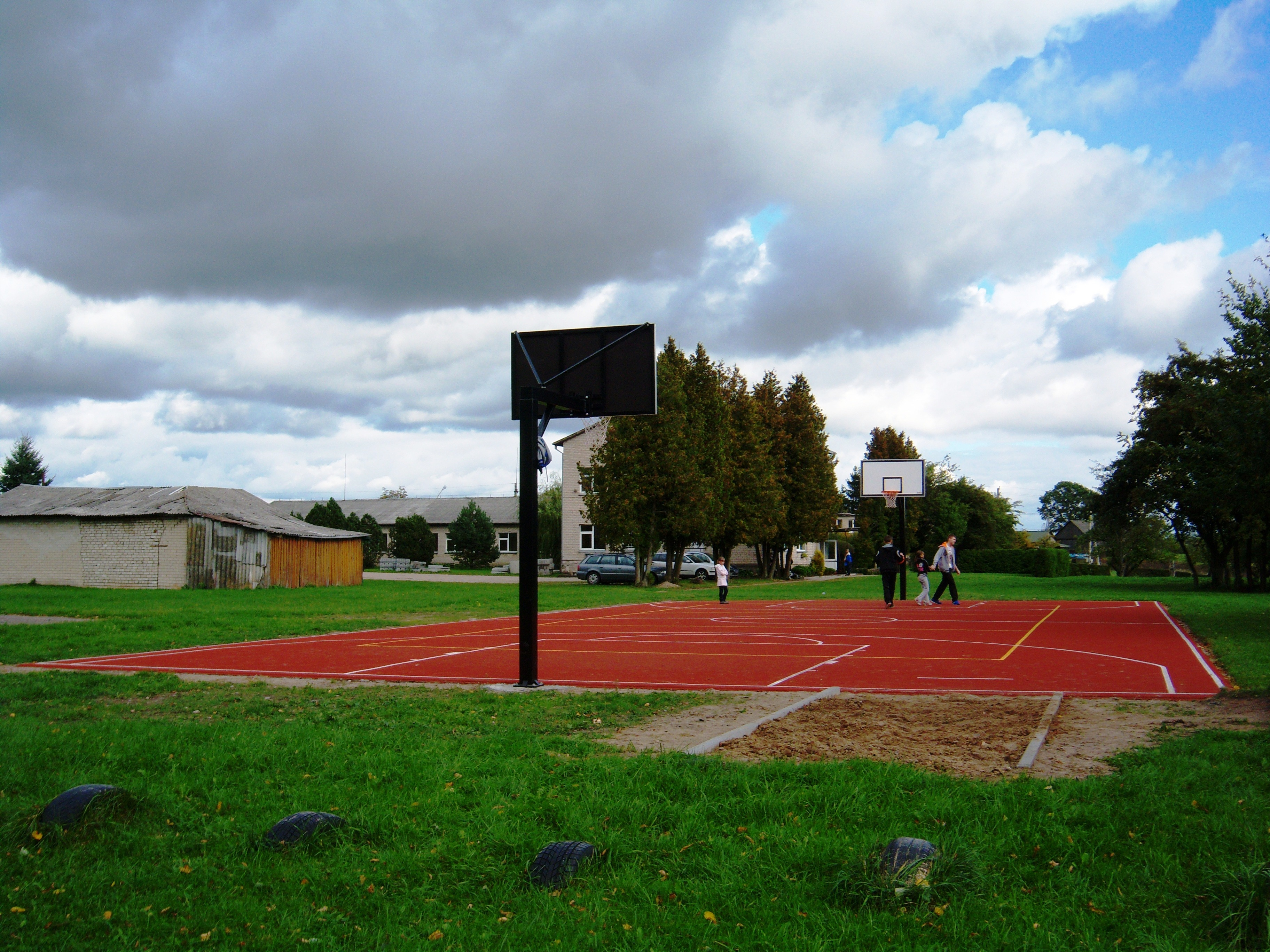 Main school in Girininkai, Kaunas District, Lithuania